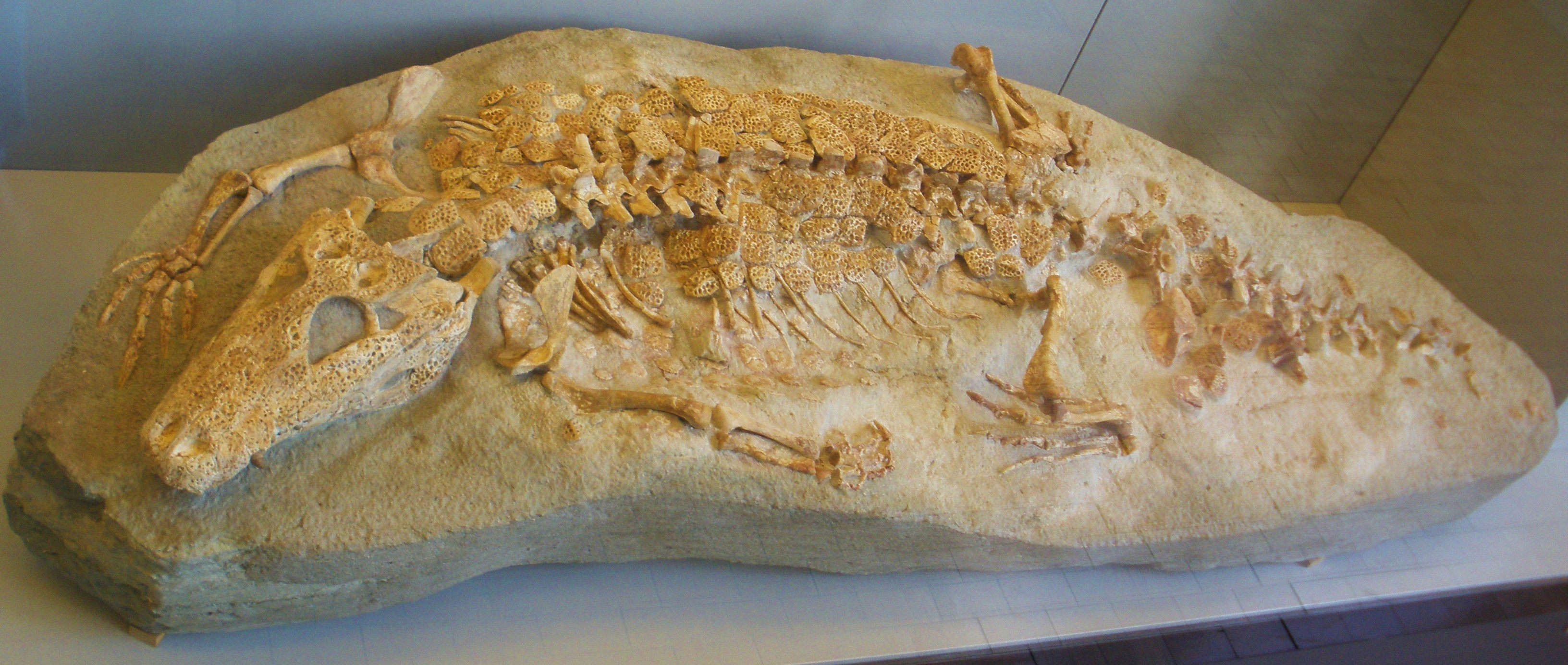 fossil of Allognathosuchus